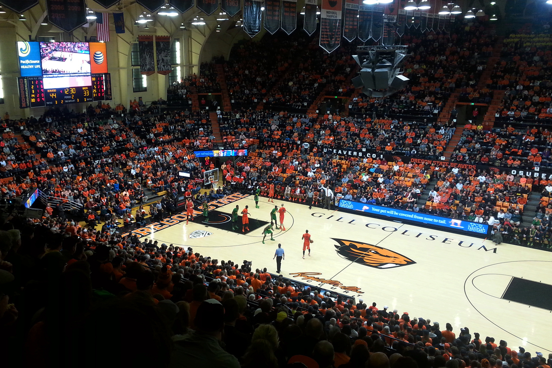 Photo of Gill Coliseum, located in Corvallis, Oregon, taken on January 3rd, 2016 during an Oregon State University men's basketball game against the University of Oregon.